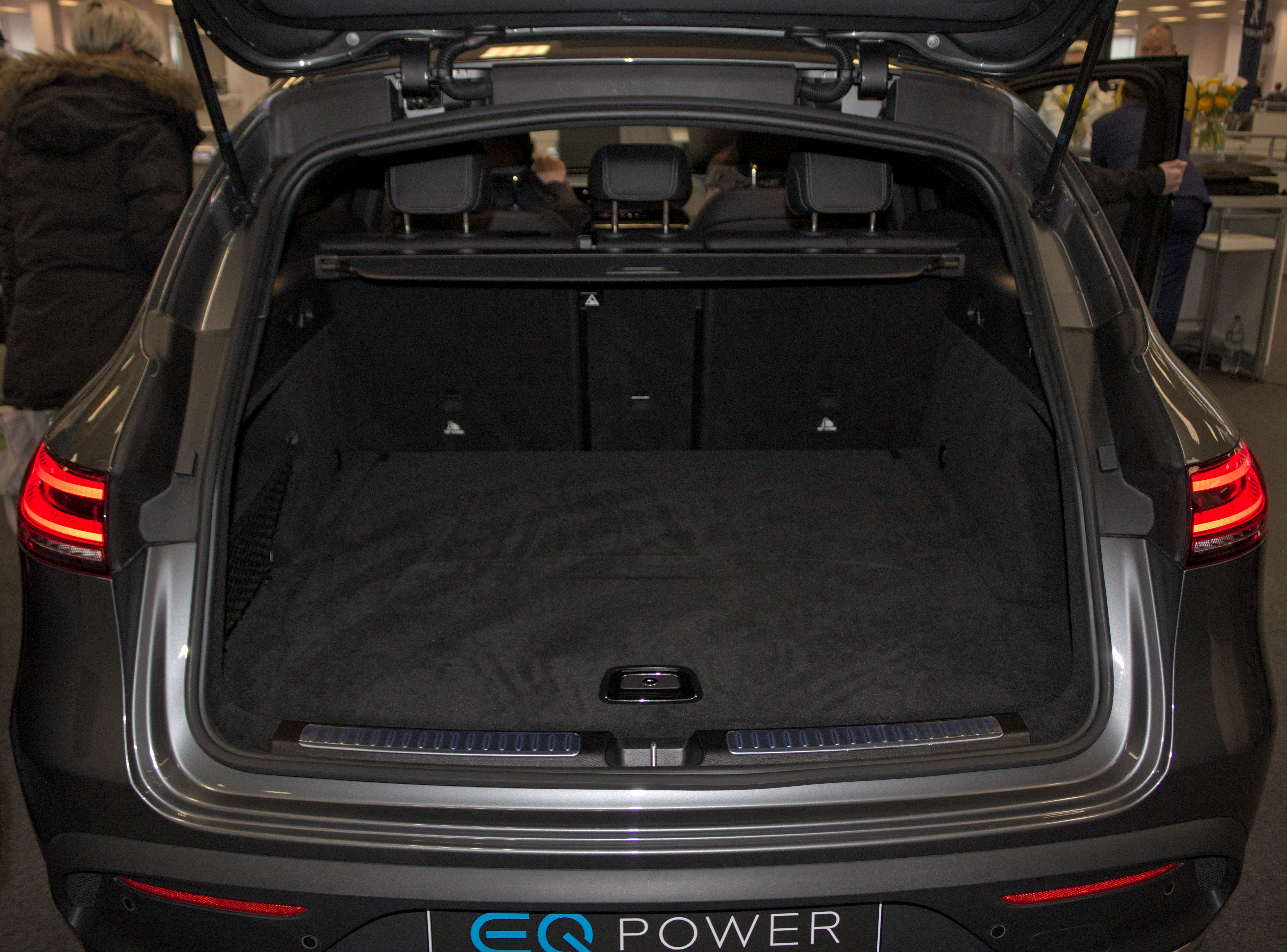 Mercedes-Benz_N293_Sindelfingen_2020